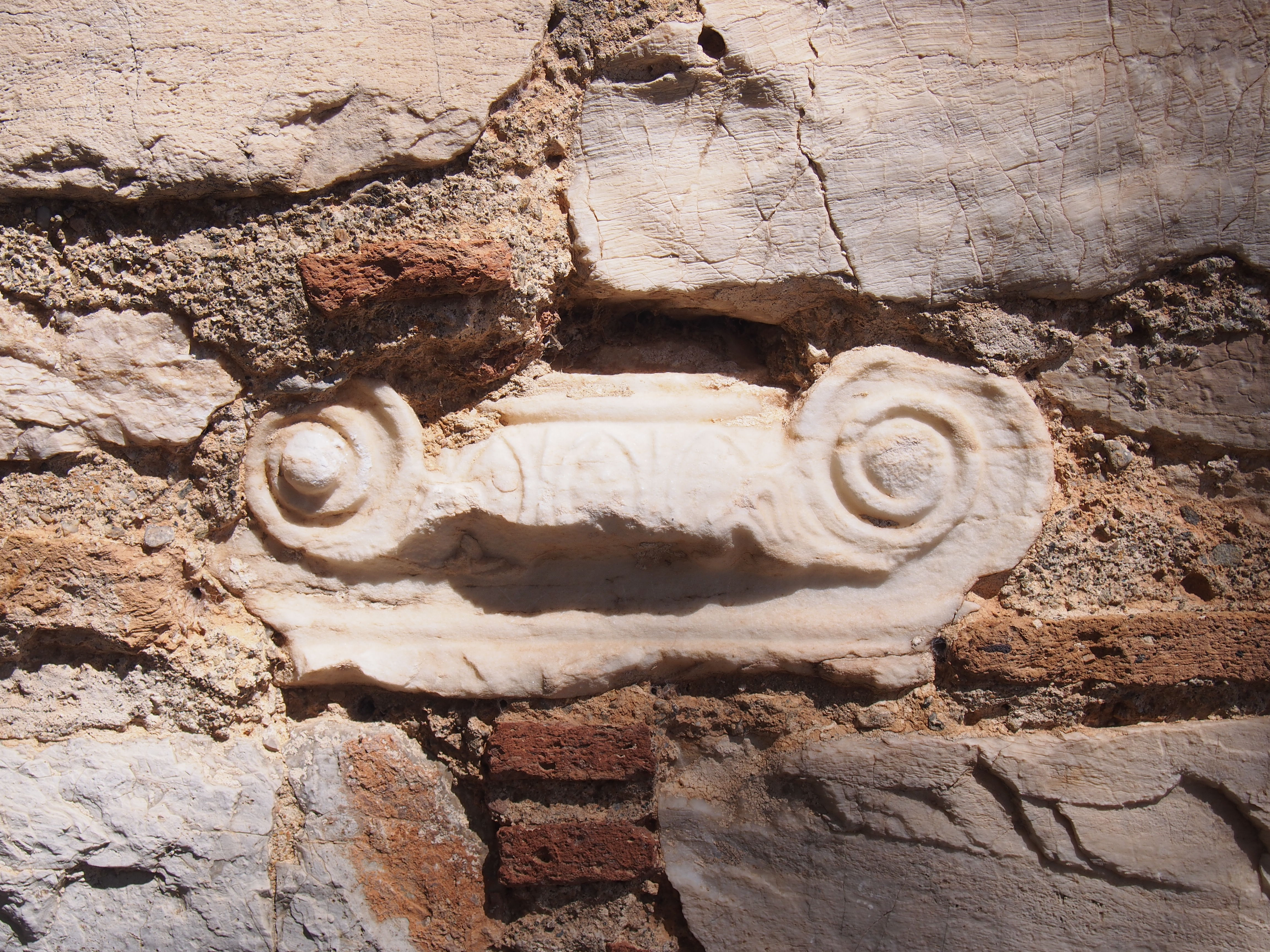 A capital embedded in the south wall of the church of Saint Peter at Ennea Pyrgoi, Kalyvia Thorikou«Ναός Αγίου Πέτρου Καλυβίων»